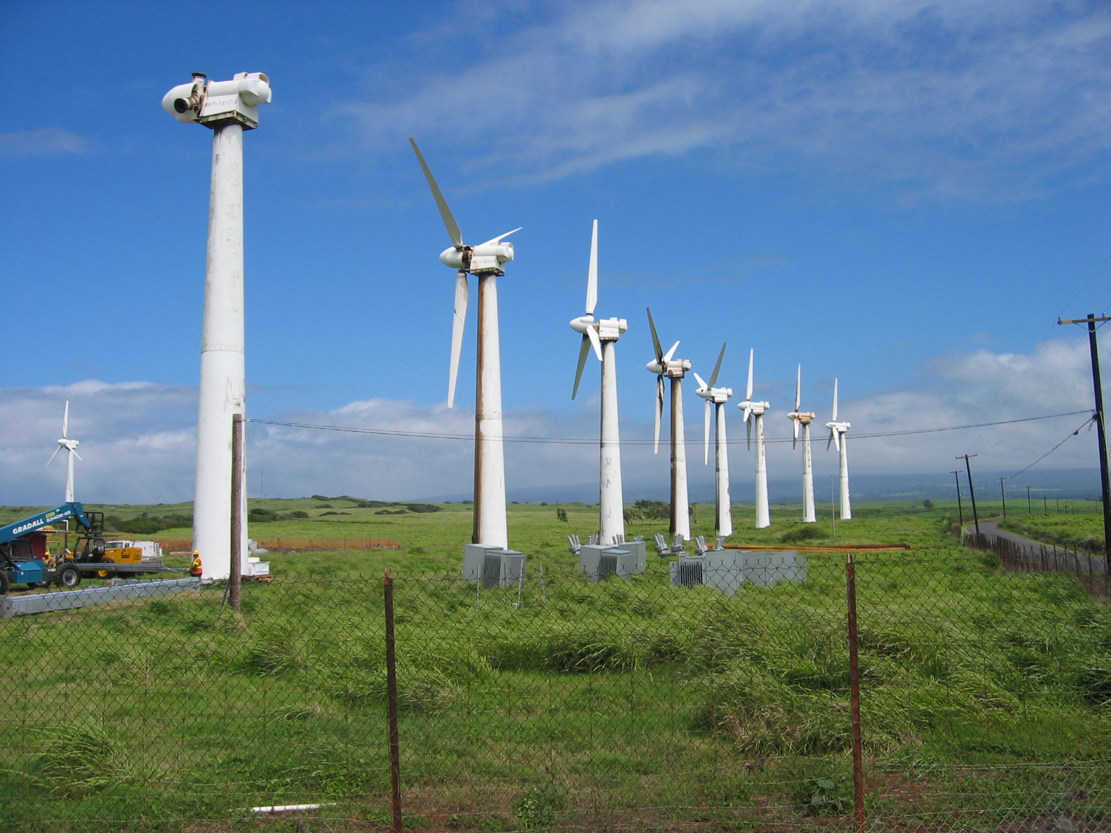 Mitsubishi 250 kW wind turbines of the Kama'oa Wind Farm in Ka Lae (a.k.a. South Point), Big Island of Hawaii. The wind farm came online in 1987, was decomissioned in 2006, and the nearby Pakini Nui wind farm replaced it with 14 larger GE Energy 1.5 MW wind turbines in 2007.